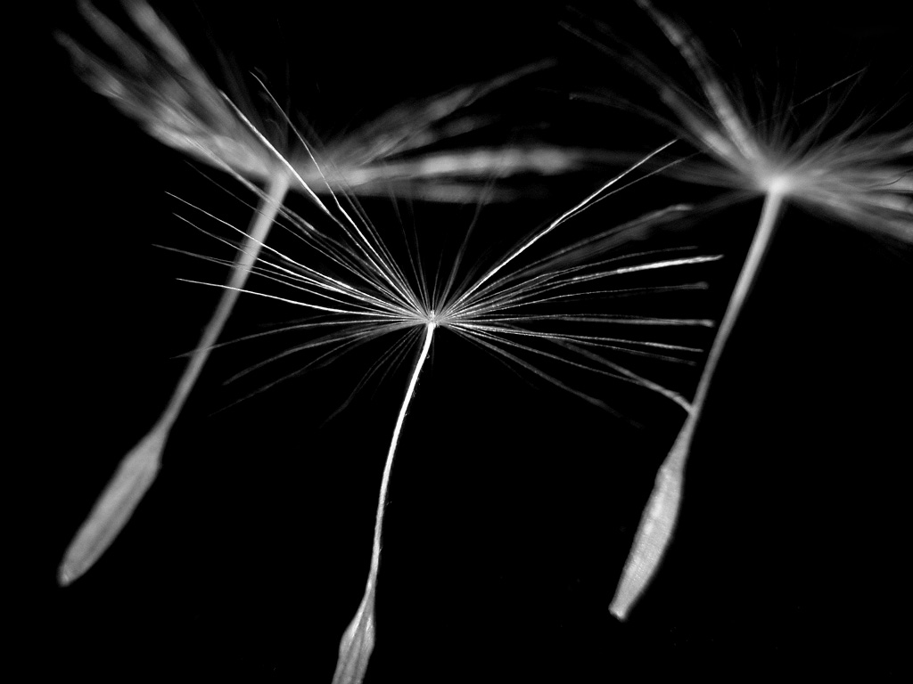 Dandelion seed floaters